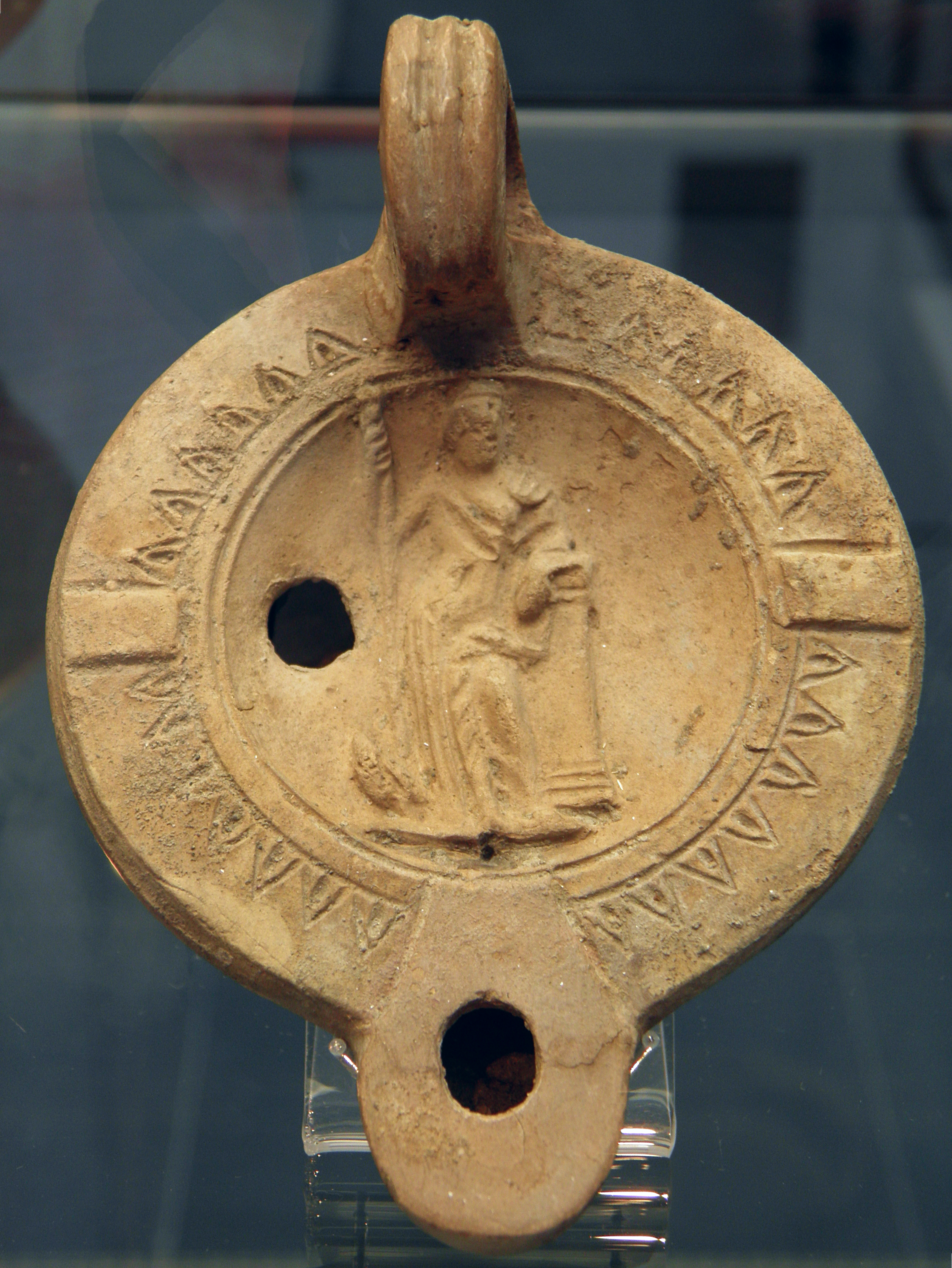 In Rome, the goddess has greater importance than in Greece. In addition to her role as the protectress of marriage she also acts as protectress of the local community.